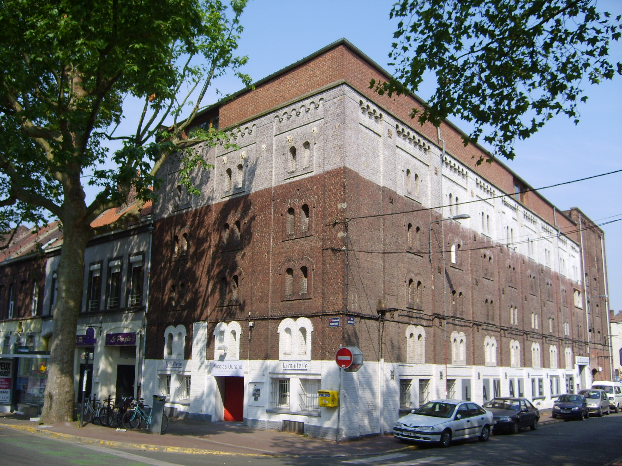 Front of La Malterie, an arts-dedicated building in the district of Wazemmes, in Lille, France. This building was built in 1871, and was a brewery. Today, there is a concert club, 28 artists studios, an exhibition space, and 5 rehearsal rooms for musicians. Everyday, more than a hundred of artists work there, to create new pieces, to develop new projects, to experiment..